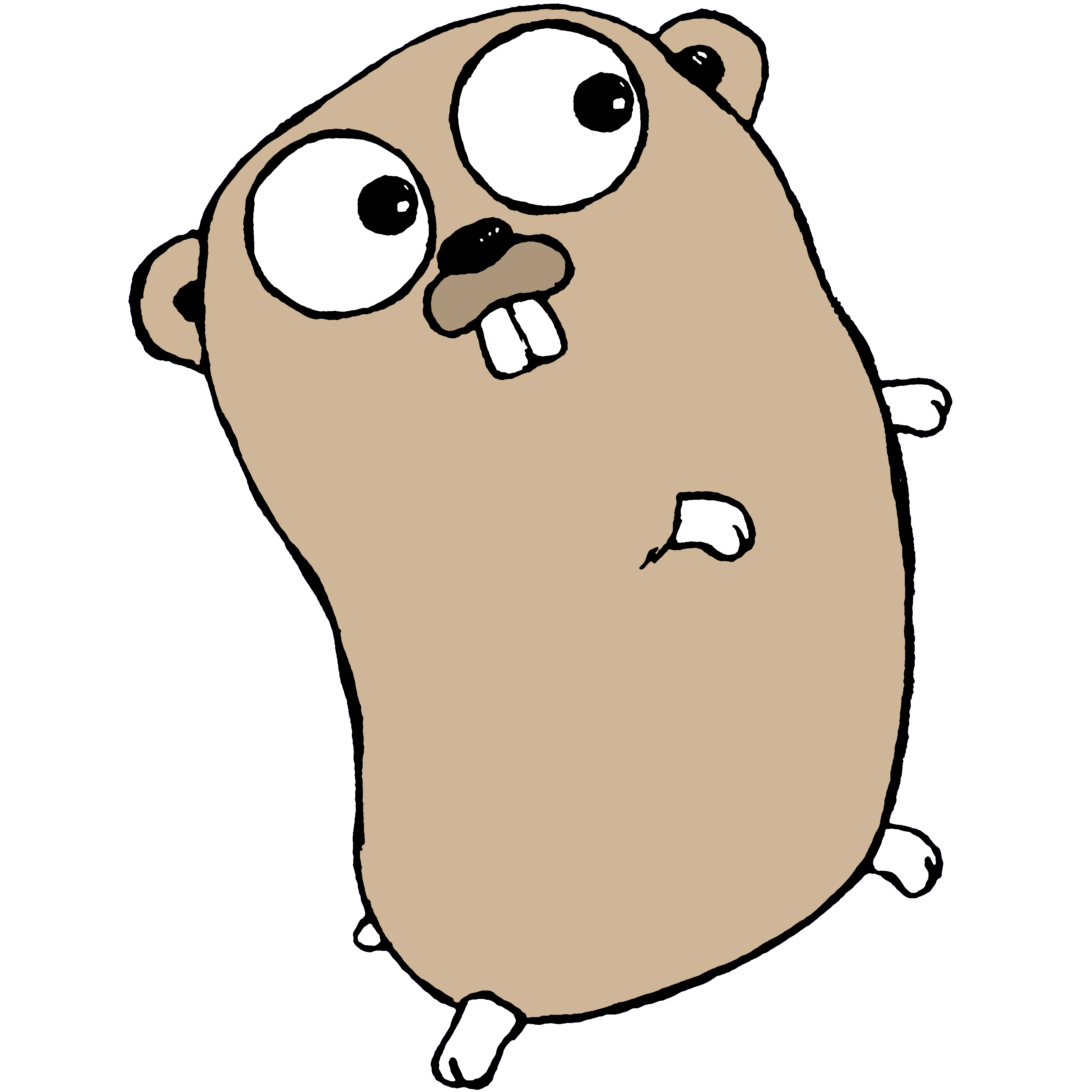 The Go Gopher.